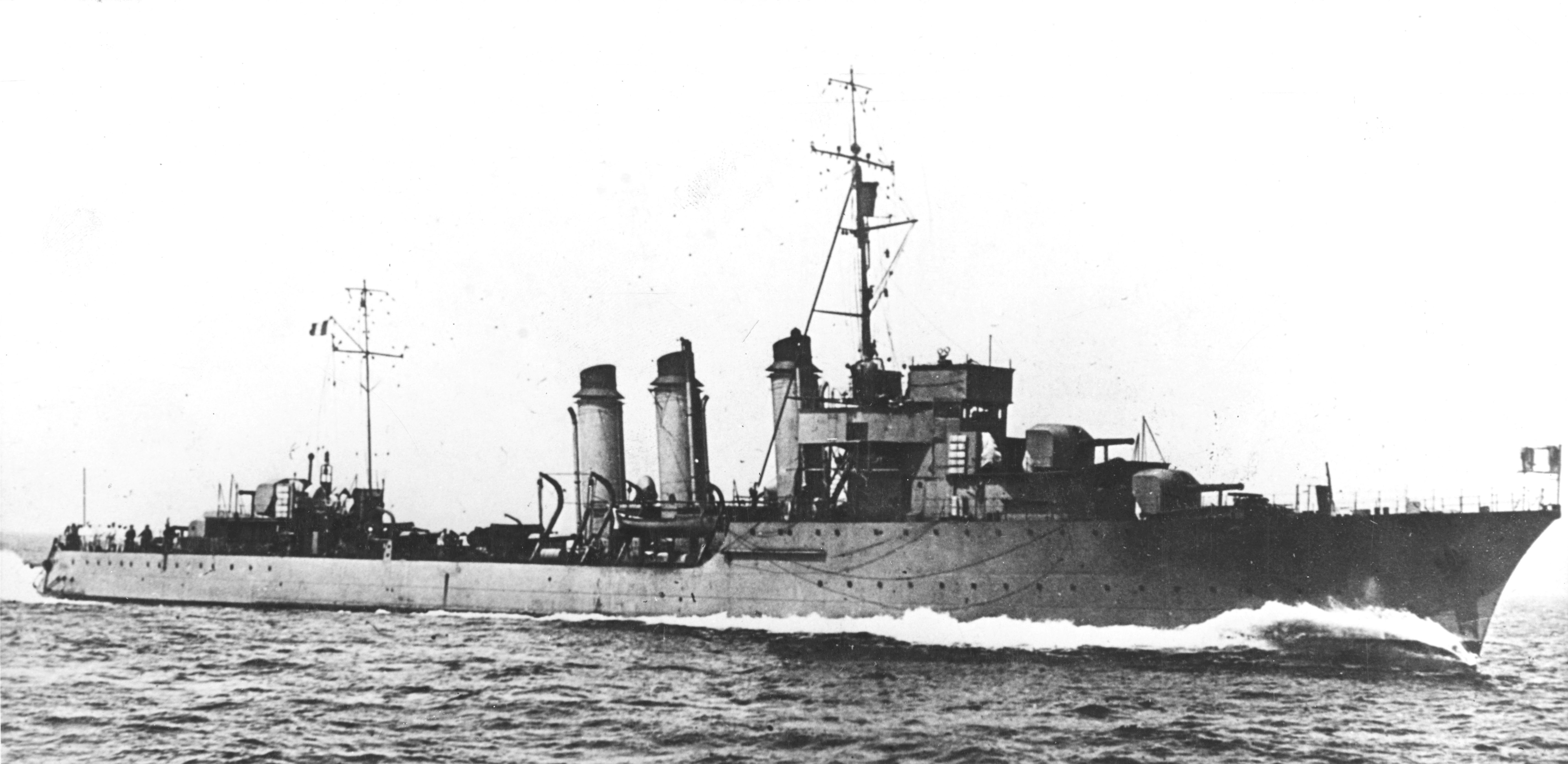 The French destroyer Siroco underway soon after completion and before her smokestacks were reduced in height.